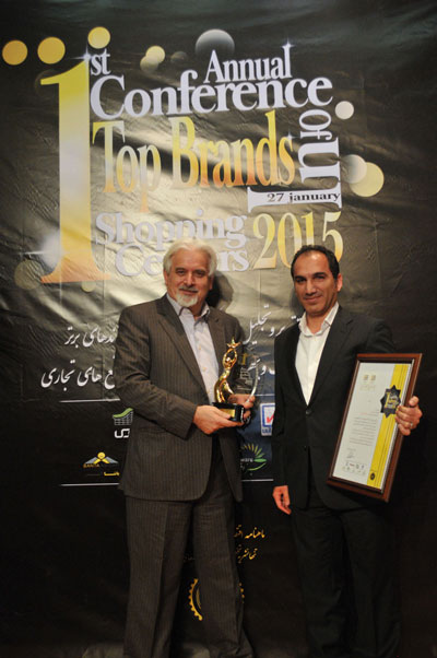 دریافت لوح تقدیر اولین ها و برترین ها در مراسم اسکار مراکز تجاری در تهران